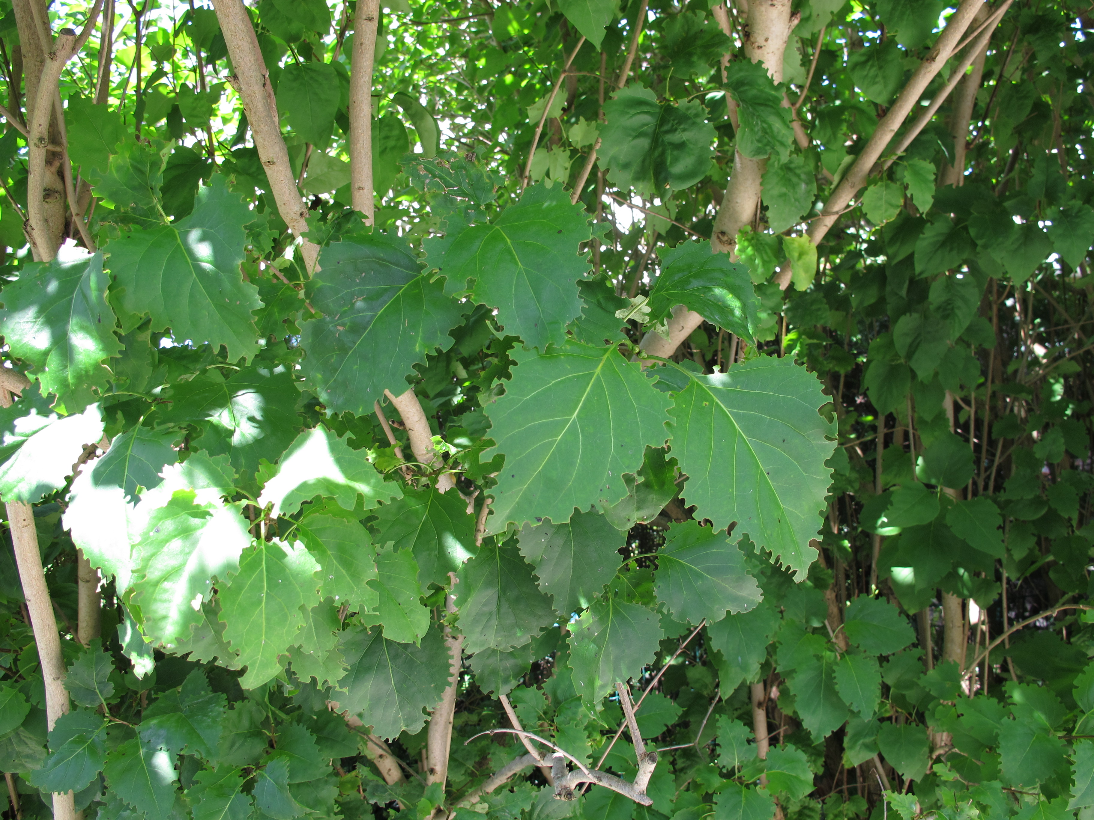 characteristic appearance of the leaves of a lilac (Syringa vulgaris) eaten by Otiorhynchus meridionalis